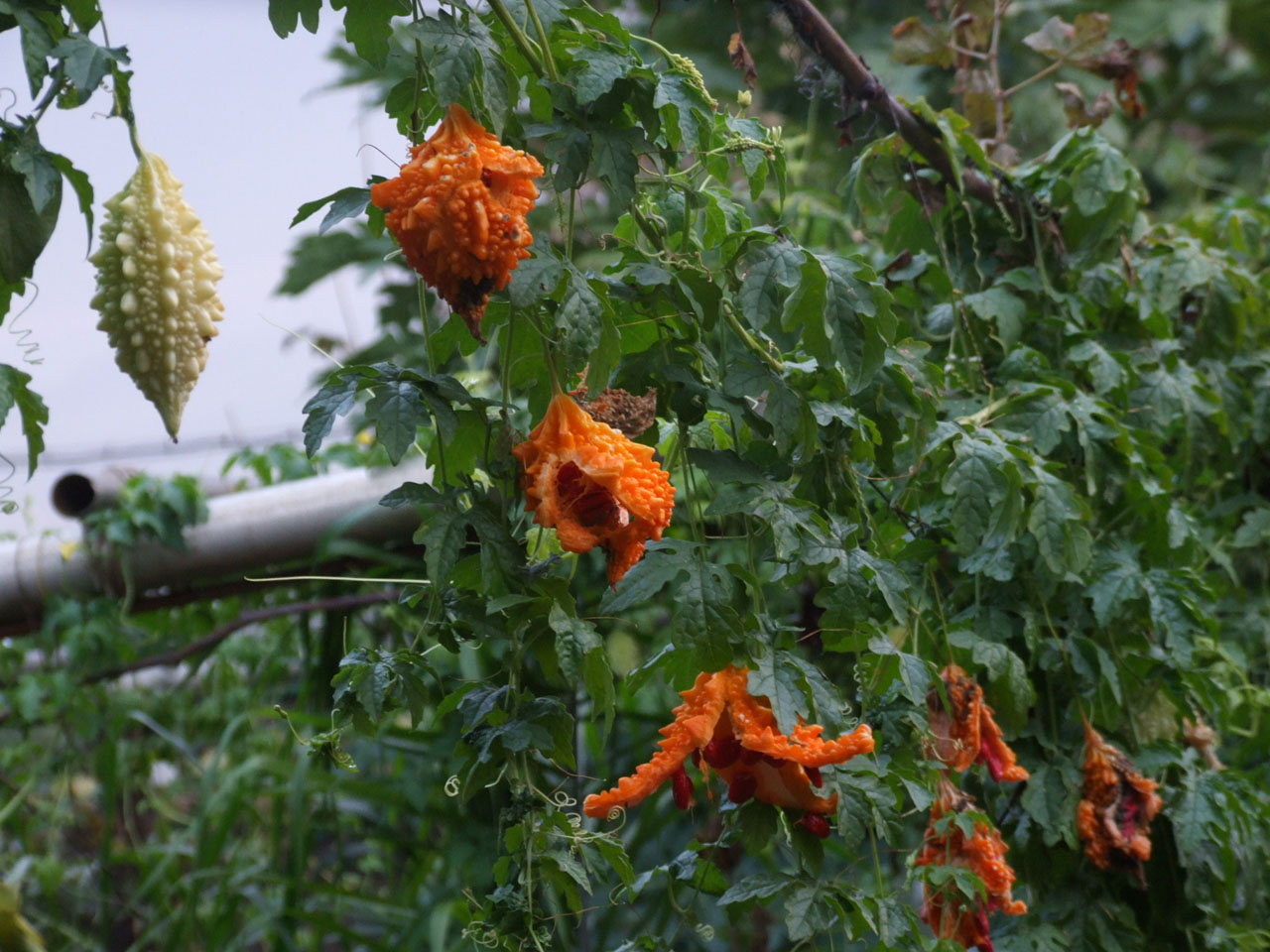 Momordica charantia, Bitter Melon